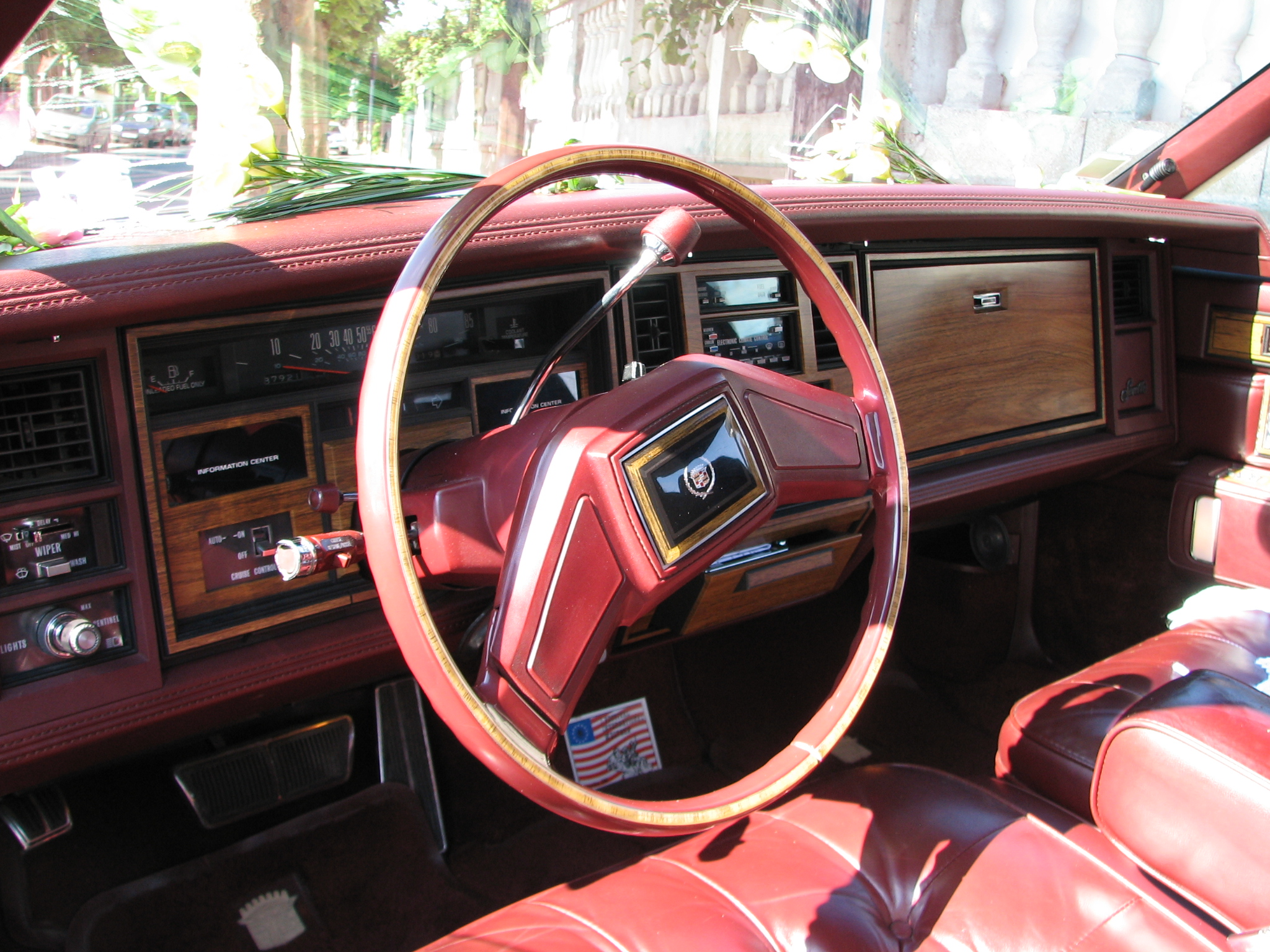 Cadillac Seville - 70's interior with wood and leather